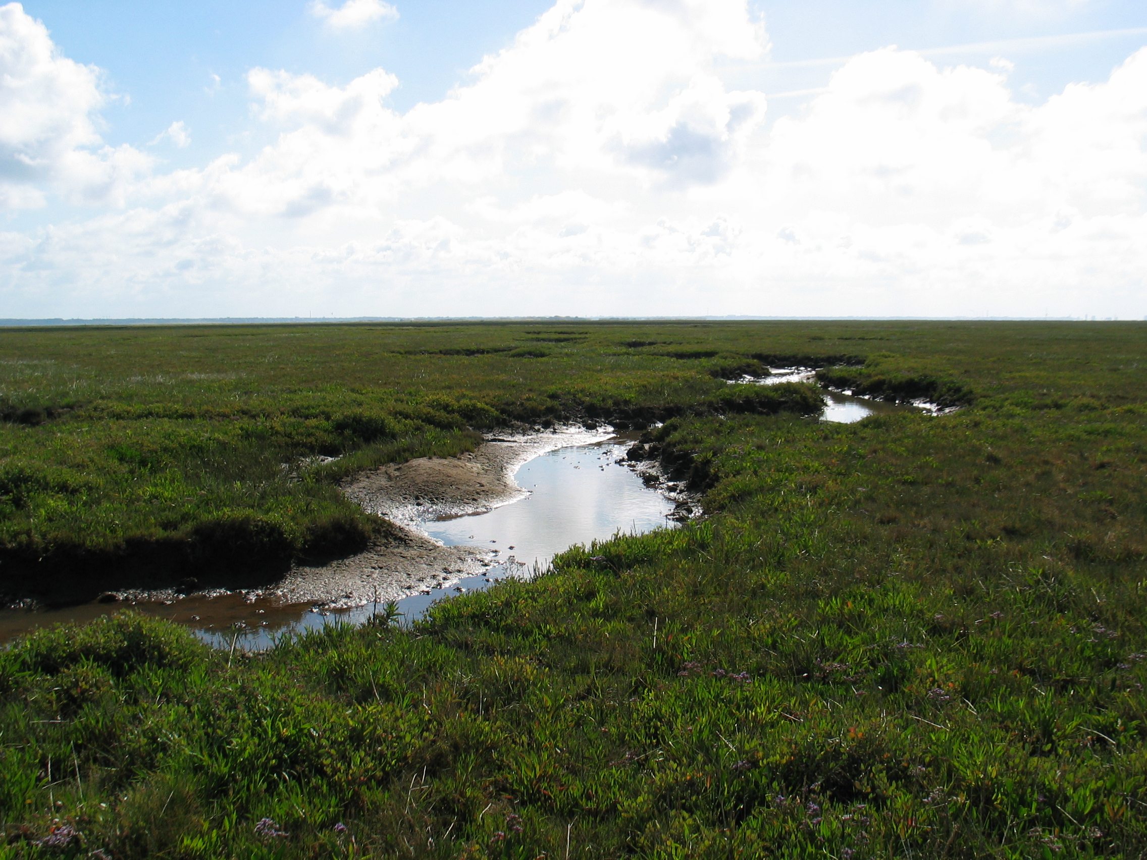 The marsh of the peninsula Skallingen in the west of Jutland in Denmark